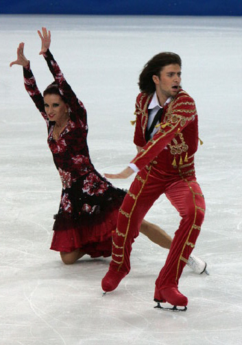 Anna ZADOROZHNIUK & Sergei VERBILLO (UKR) at the 2009 European Figure Skating Championships. FD